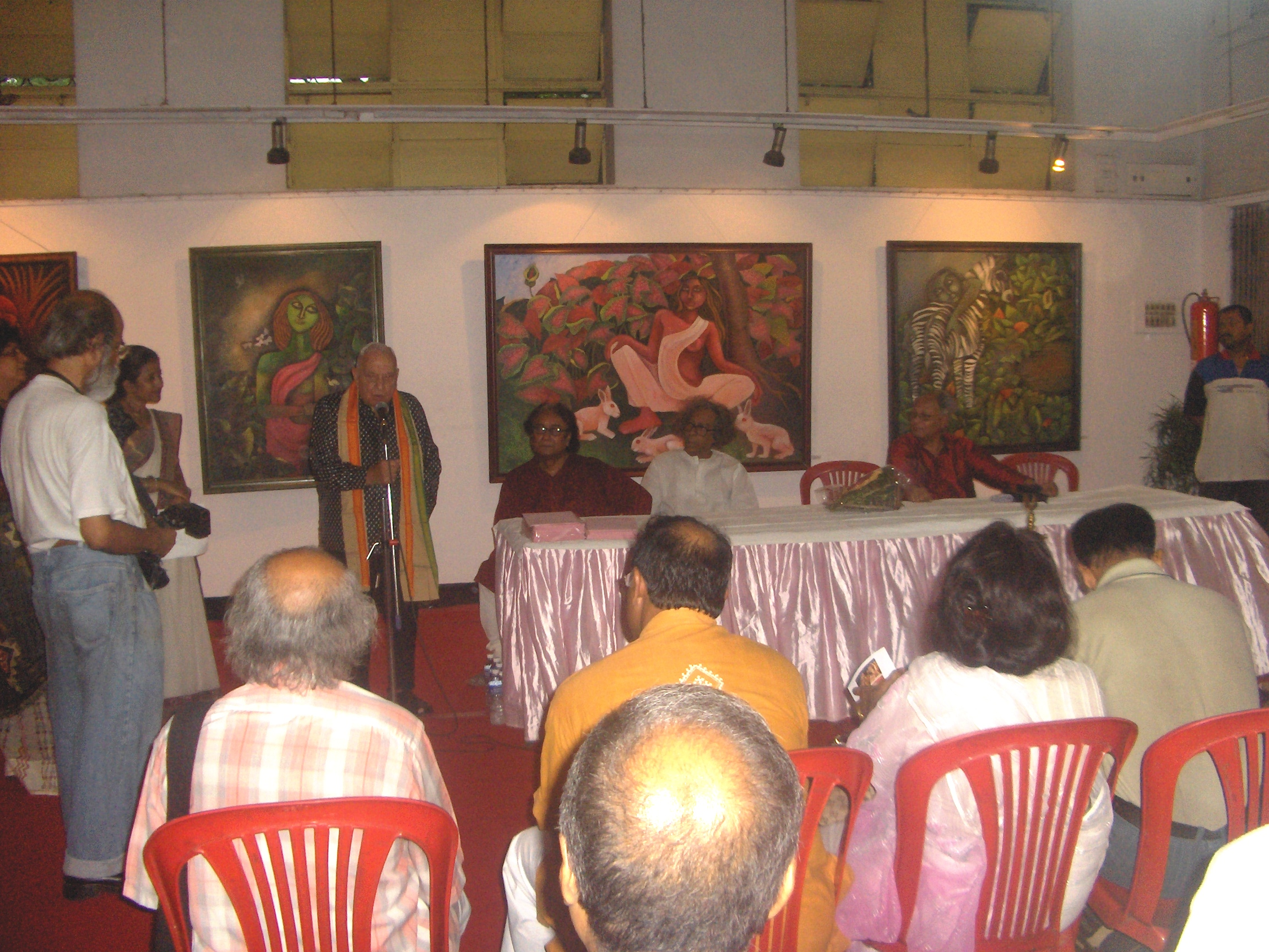 Russy Modi